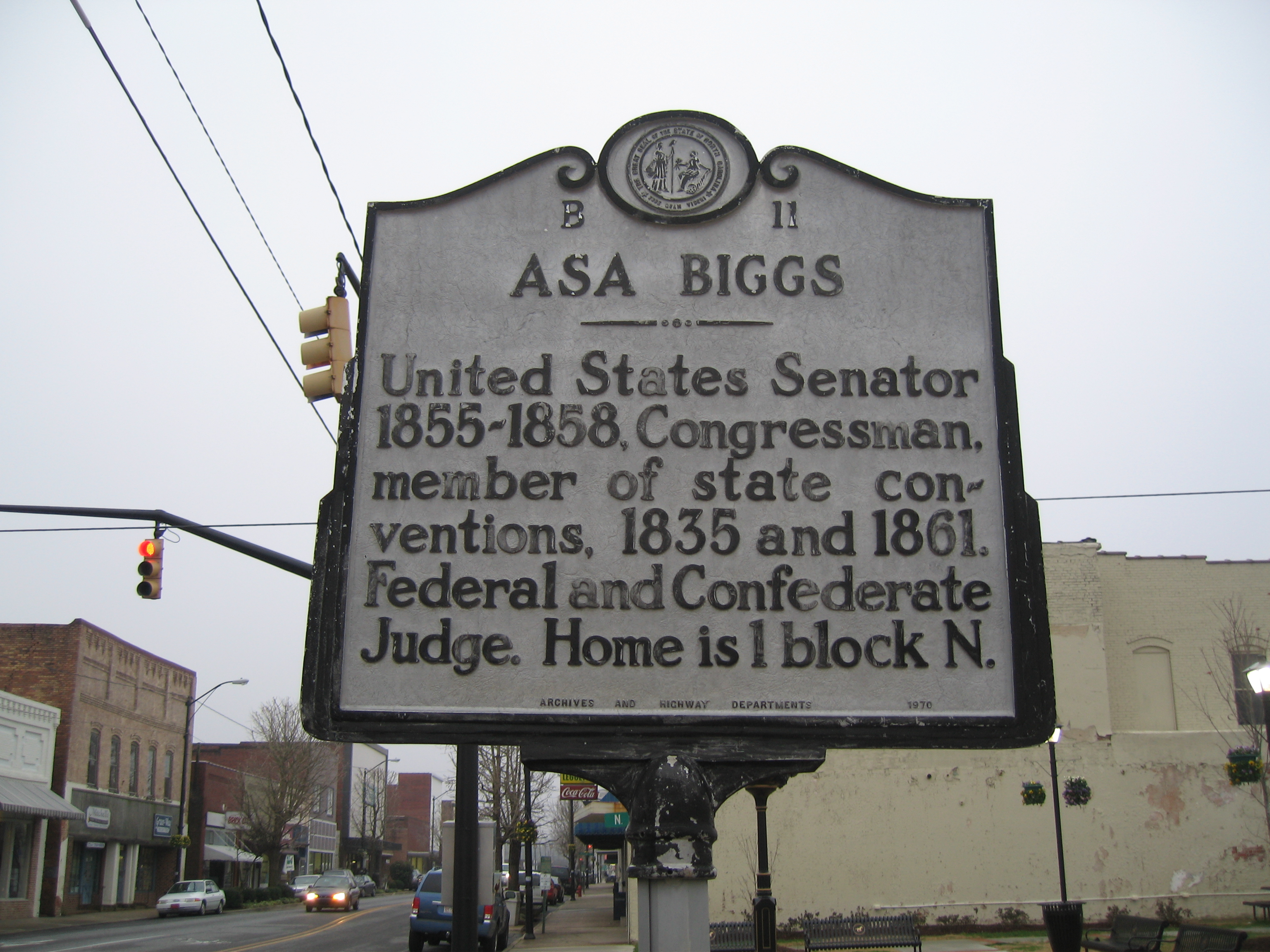 Historical marker for the home of Asa Biggs. This marker is located in Williamston, North Carolina at the intersection of West Main Street and North Smithwick Street.